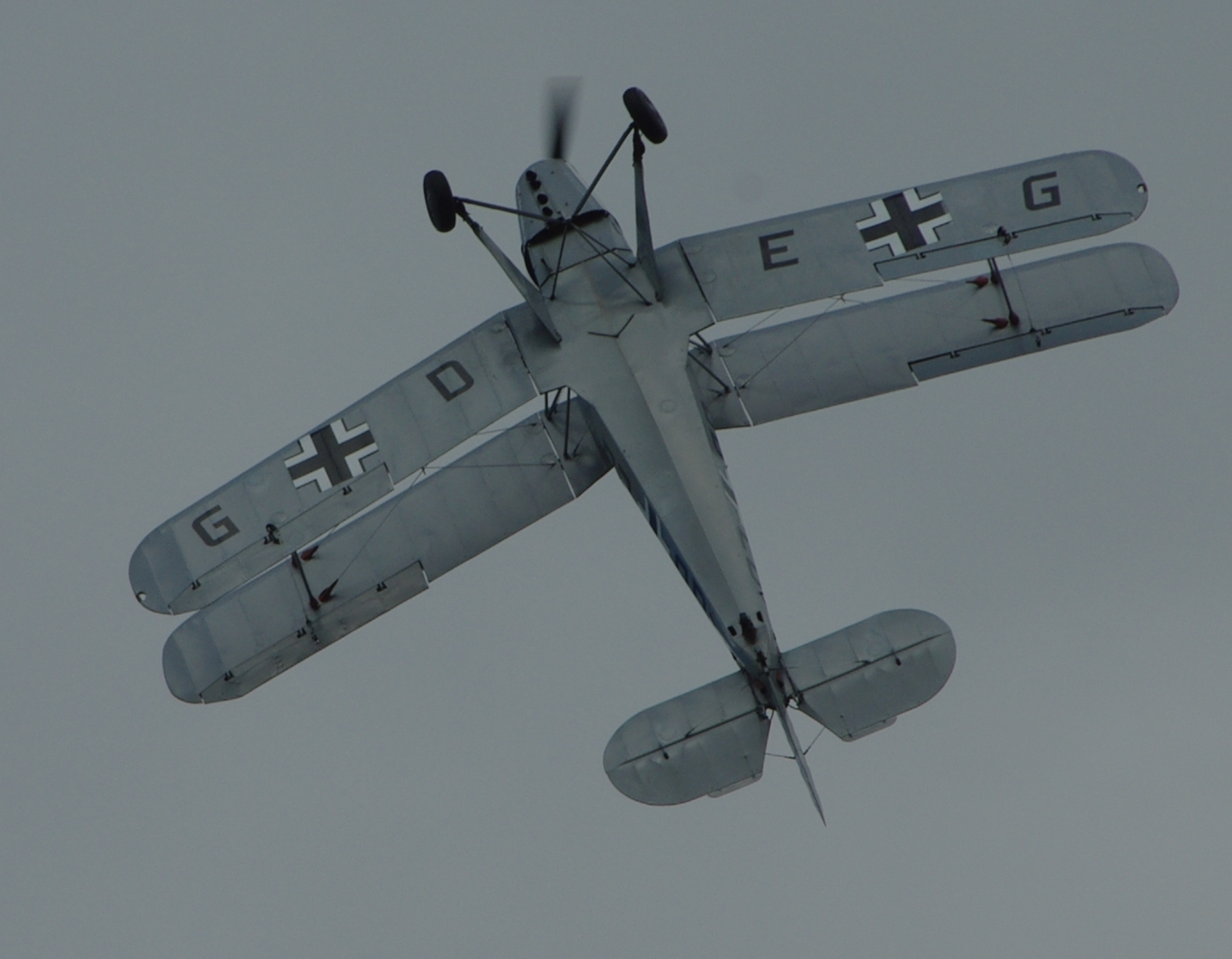 The Shuttleworth Trust's Bucker Jungmann G-RETA enters a loop at the Old Warden Summer Show 2009